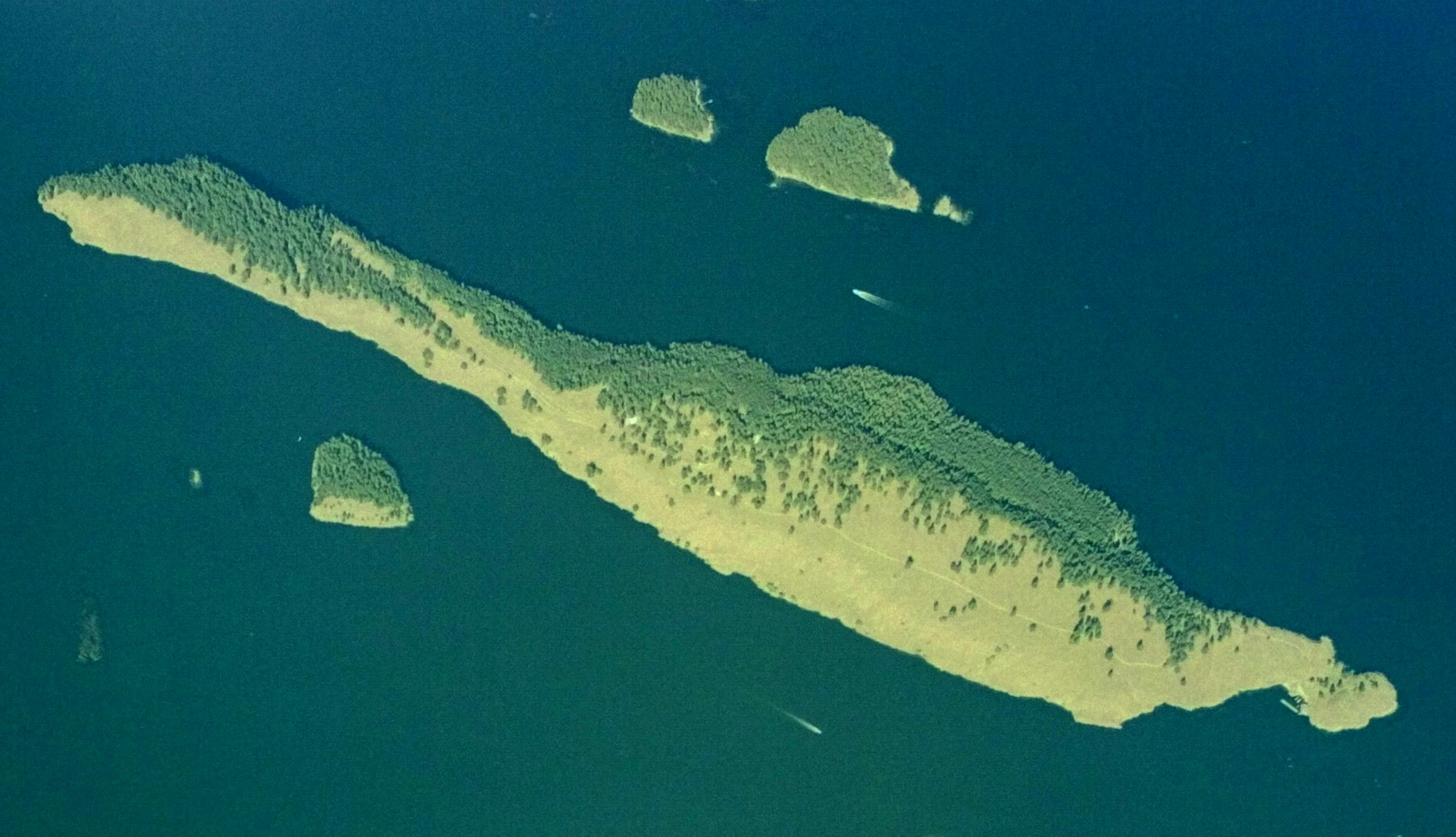 Spieden Island is a privately owned island in the San Juan Archipelago in the U.S. state of Washington. Entity ID: AR1VFLVC0030147